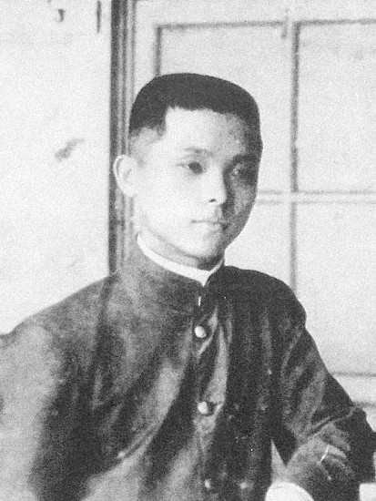 Huang Tushui as a student in Japan